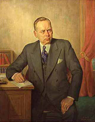 Painting of Governor Hjalmar Petersen. Minnesota Historical Society Painter: Carl Bohnen (1871-1951) Art Collection, Oil 1937 Location no. AV1996.9.24 Negative no. 83117